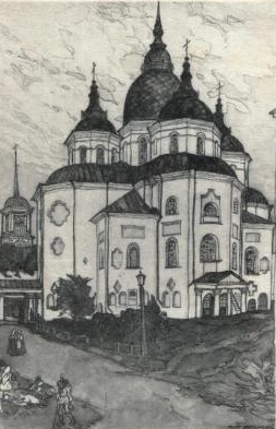 St Nicolas Cathedral in Nizhyn, painting by G. K. Lukomsky